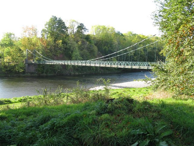 Bridge over the River Tweed at Dryburgh